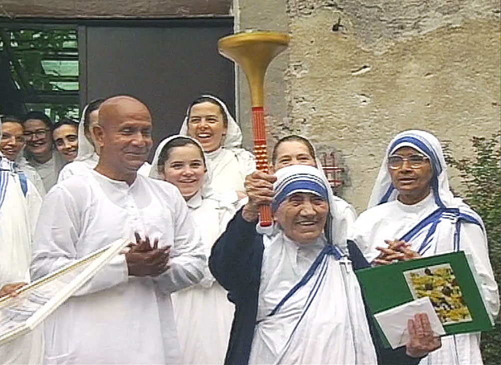 Sri Chinmoy with Mother Teresa holding Peace Torch.